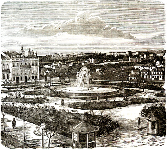 The Square of the Burnt Patriarchal Church (Largo da Patriarcal Queimada), currently called Garden of the Prince Royal (Jardim do Príncipe Real), in Lisbon, in a 1873 lithograph.